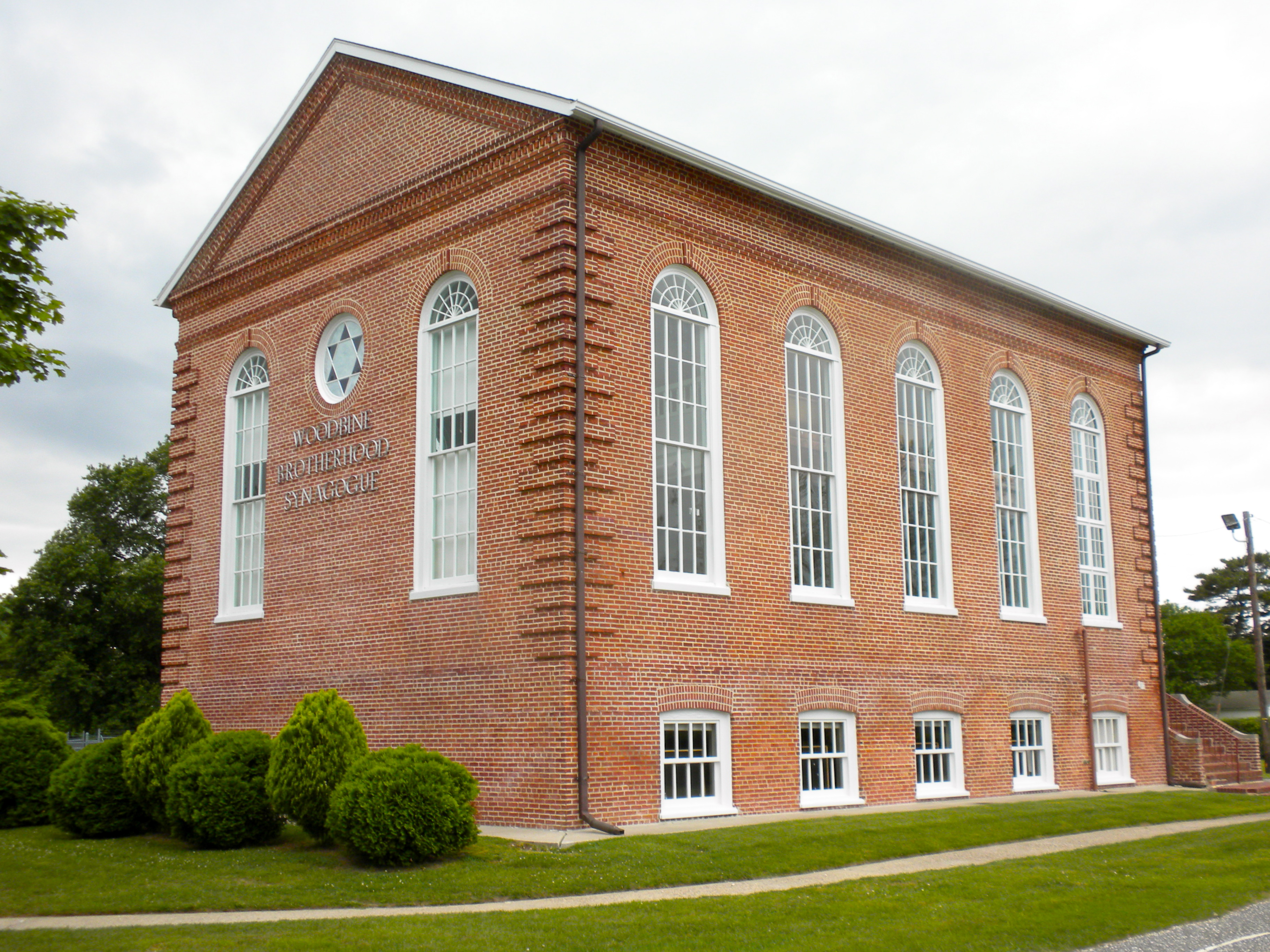 Woodbine Brotherhood Synagogue on the NRHP since September 17, 1980. At 612 Washington Ave., right next to the Post Office, Woodbine, NJ